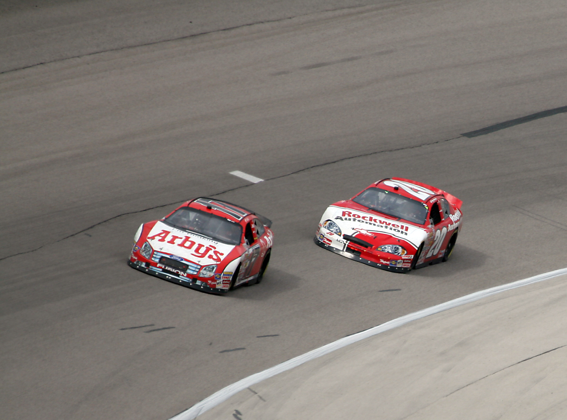 Denny Hamlin's #20 Busch car (right) battling Matt Kenseth (left) for position. Matt Kenseth passes Denny Hamlin to win the 2007 event.